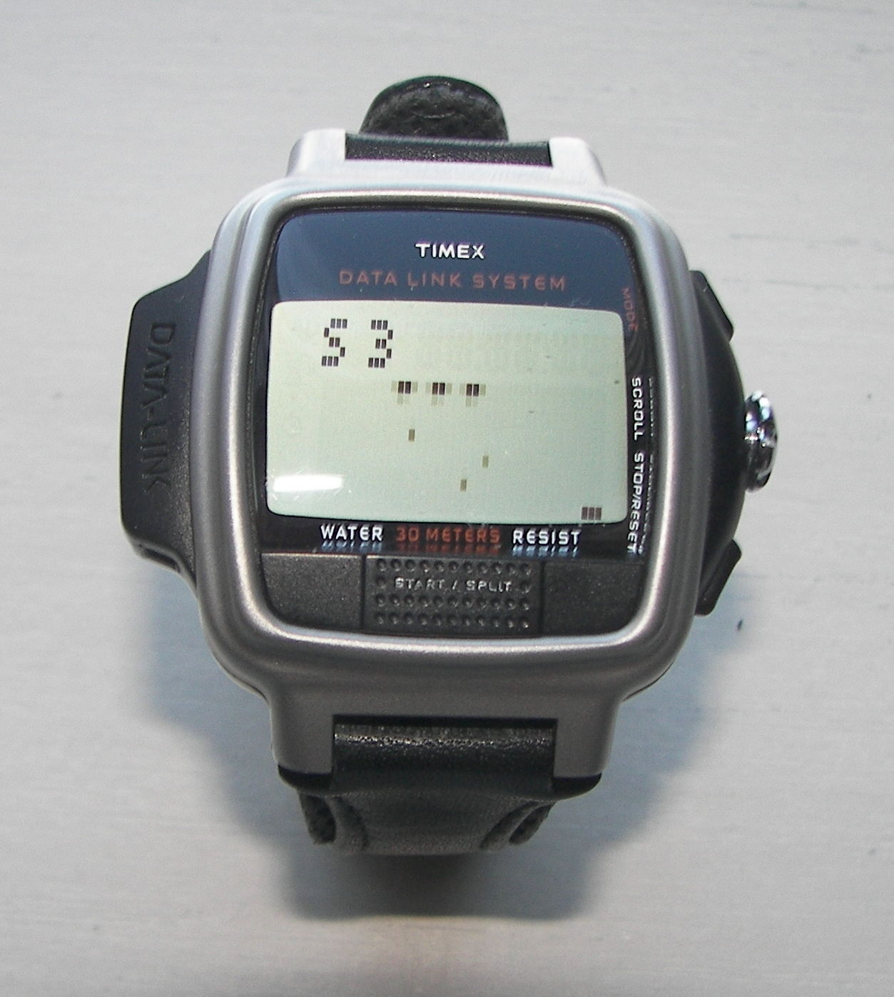 I am the creator. Dr.K. 07:26, 21 January 2007 (UTC)